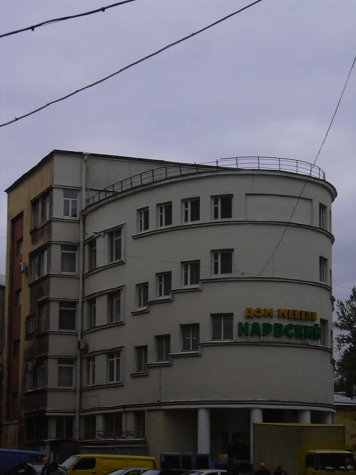 dom tekhnicheskoy ucheby - constructivist building in Peterburg